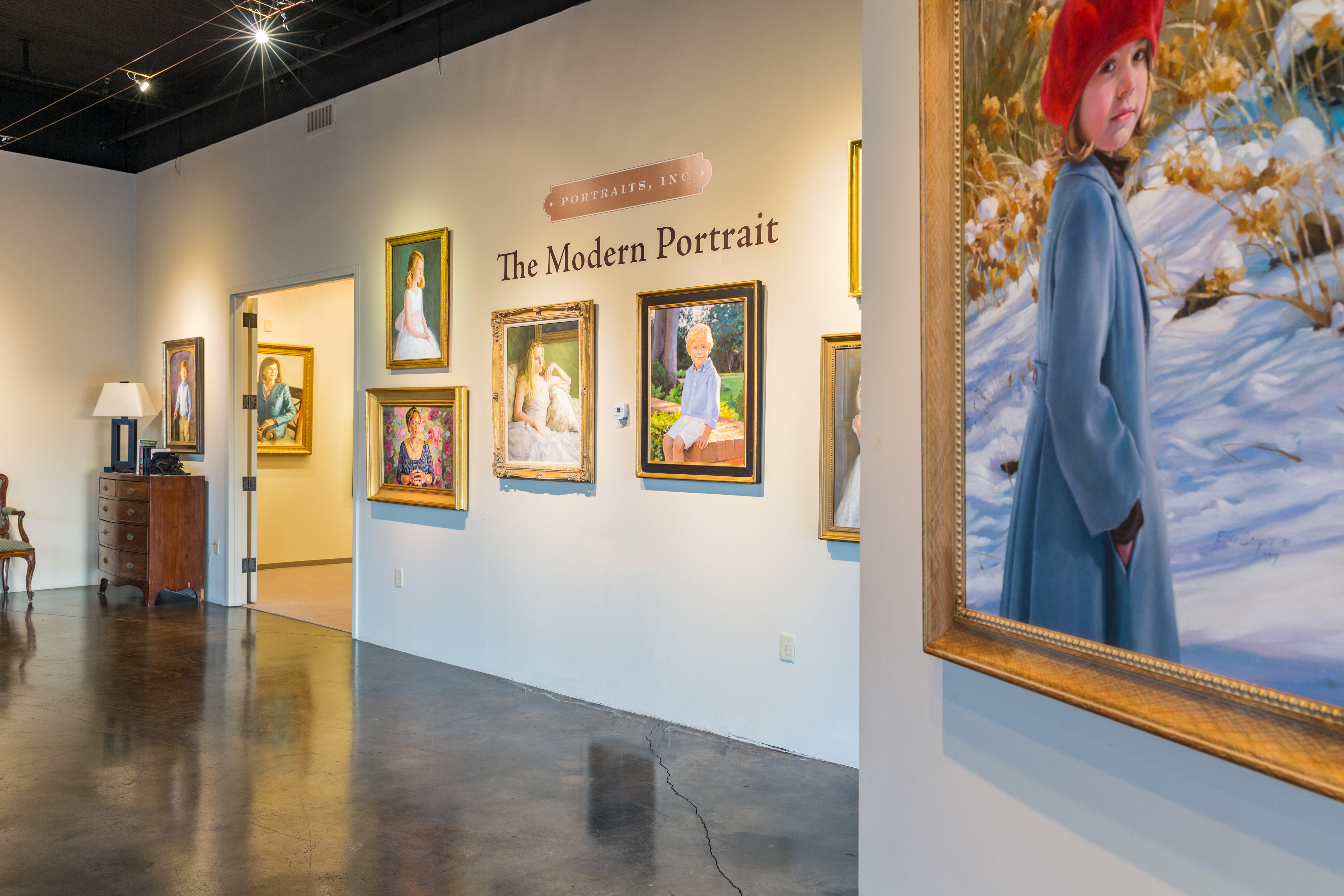 Portraits, Inc Birmingham gallery and corporate office